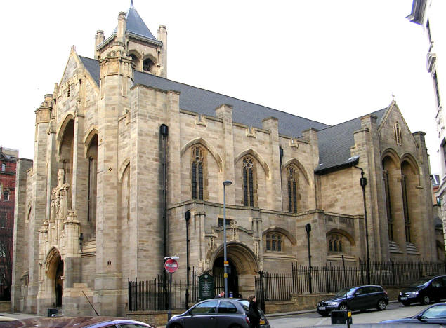 St Anne's Catholic Cathedral, Cookridge Street